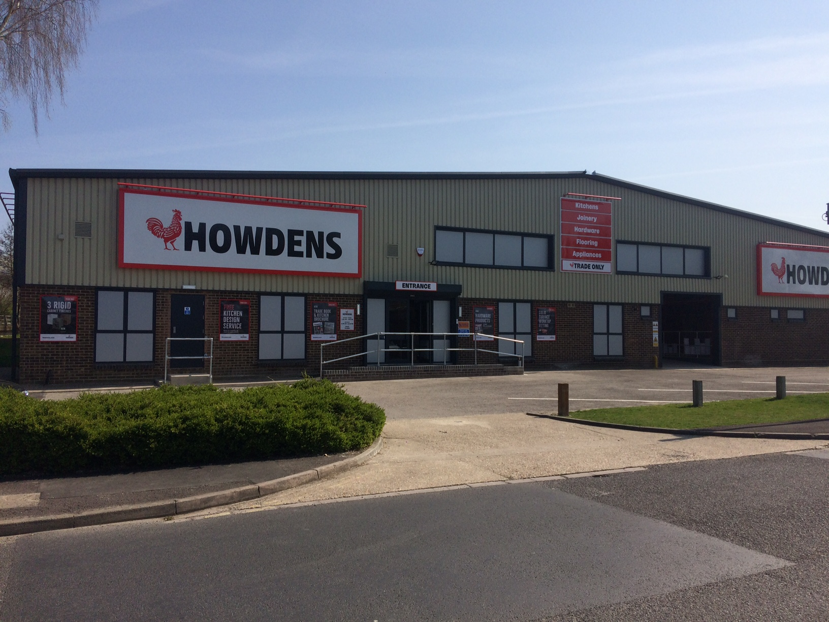 Romsey depot